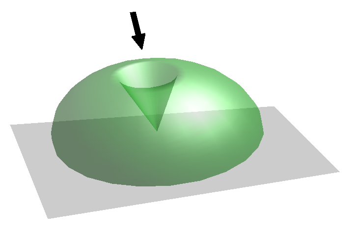 Spatial volume visible by a telescope with a keyhole problem